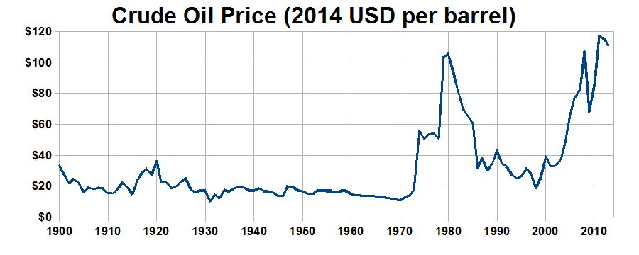 Graph of annual average crude oil prices, as published in the BP Statistical Review of World Energy